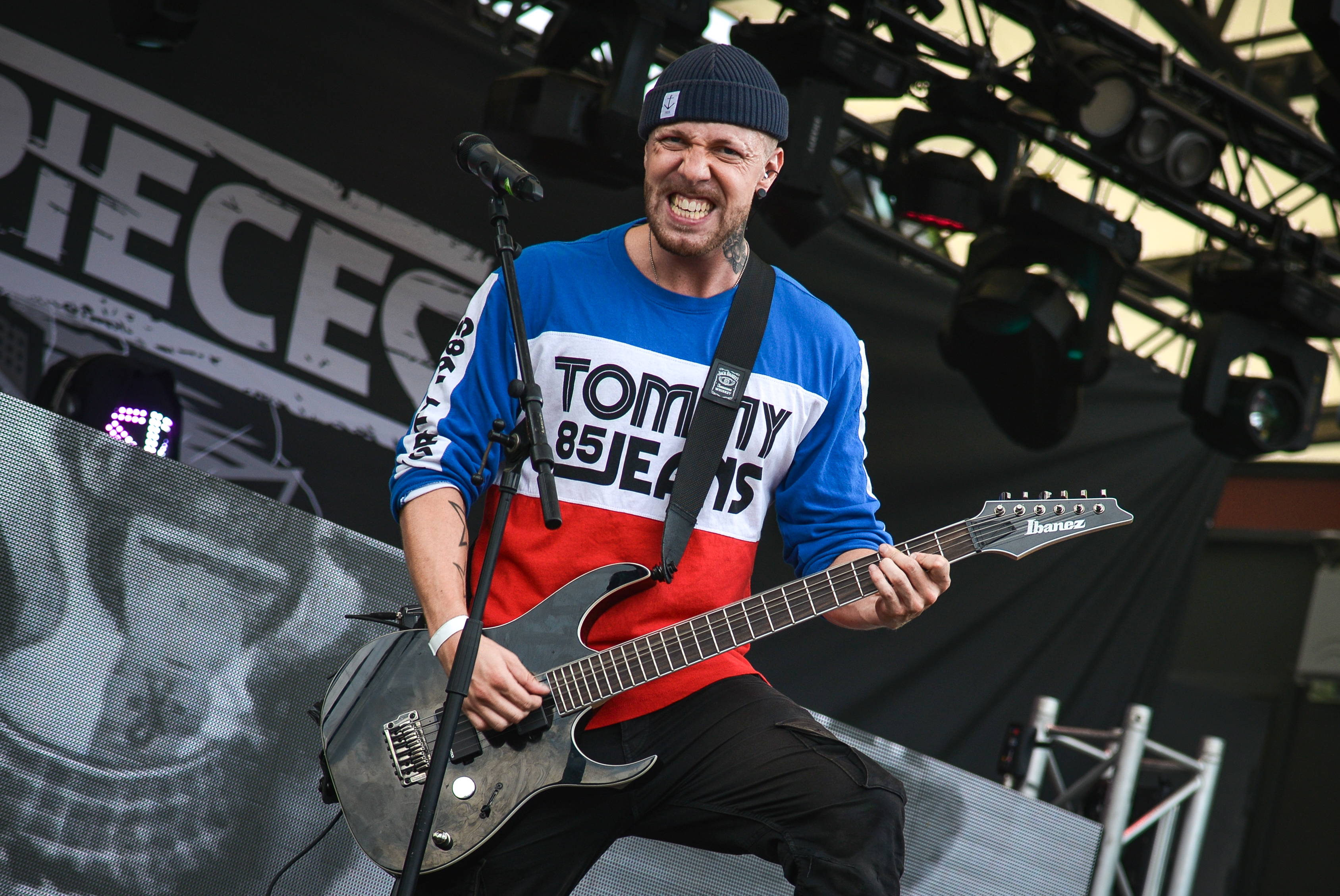 Smash Into Pieces during a gig in Kungsträdgården 2018. Benjamin Jennebo on guitar.